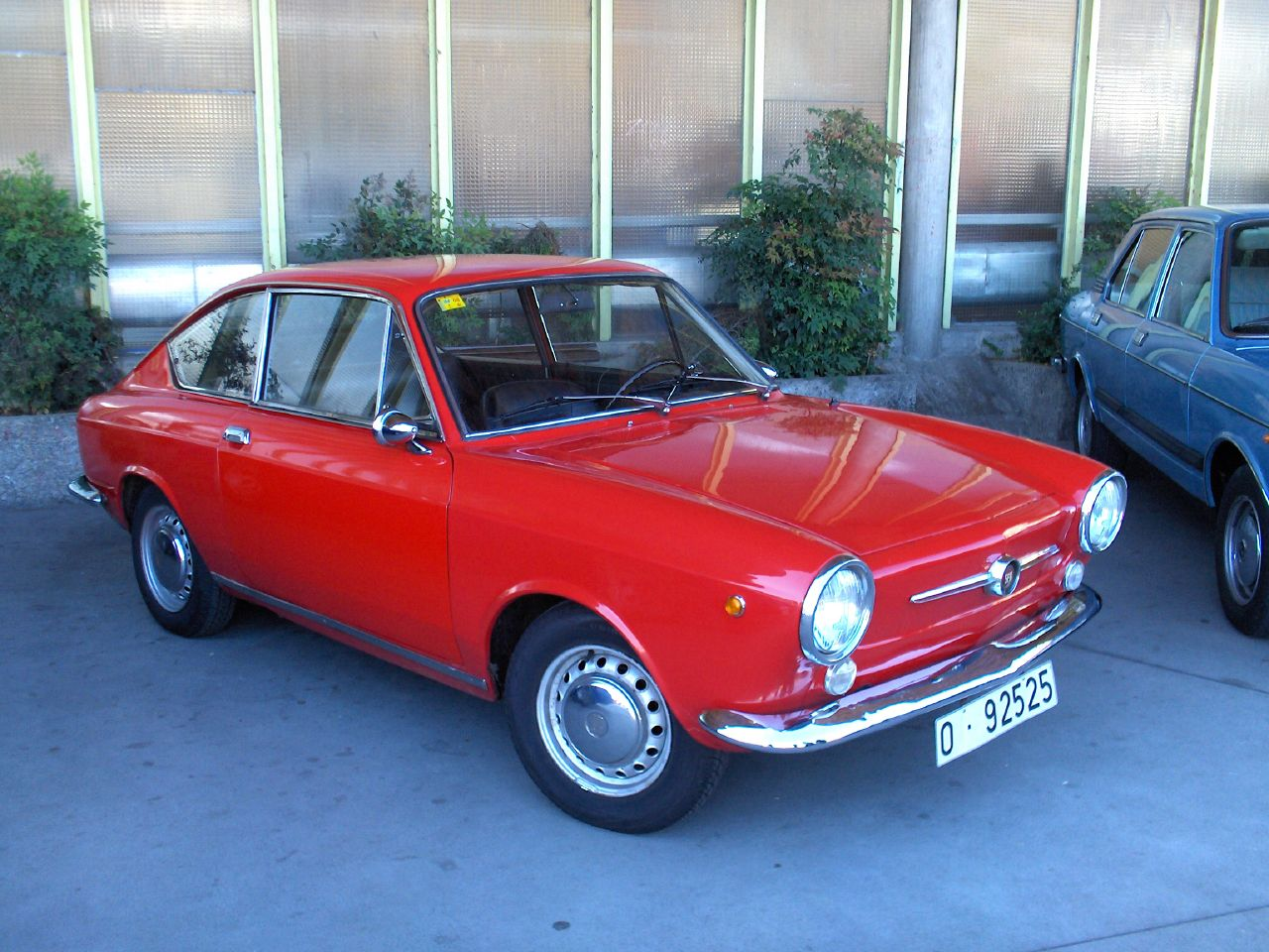 SEAT 850 Sport front side